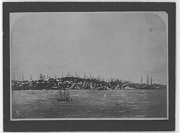 Caption on image: Peiser 87 . Handwritten on verso: Seattle in the seventies -- by Fife ? Painting of Seattle ca. 1875 photographed by Theodore E. Peiser . Peiser 87 Subjects (LCTGM): Paintings